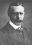 Charles van Lerberghe (1861-1907) - Flemish (Belgian) symbolist poet writing in French.